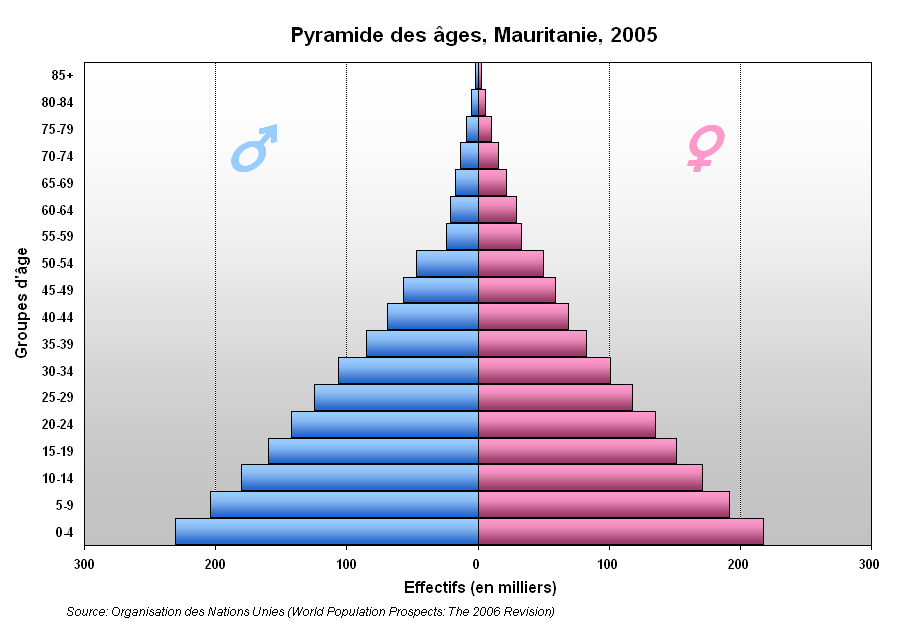 Mauritania Population pyramid, 2005